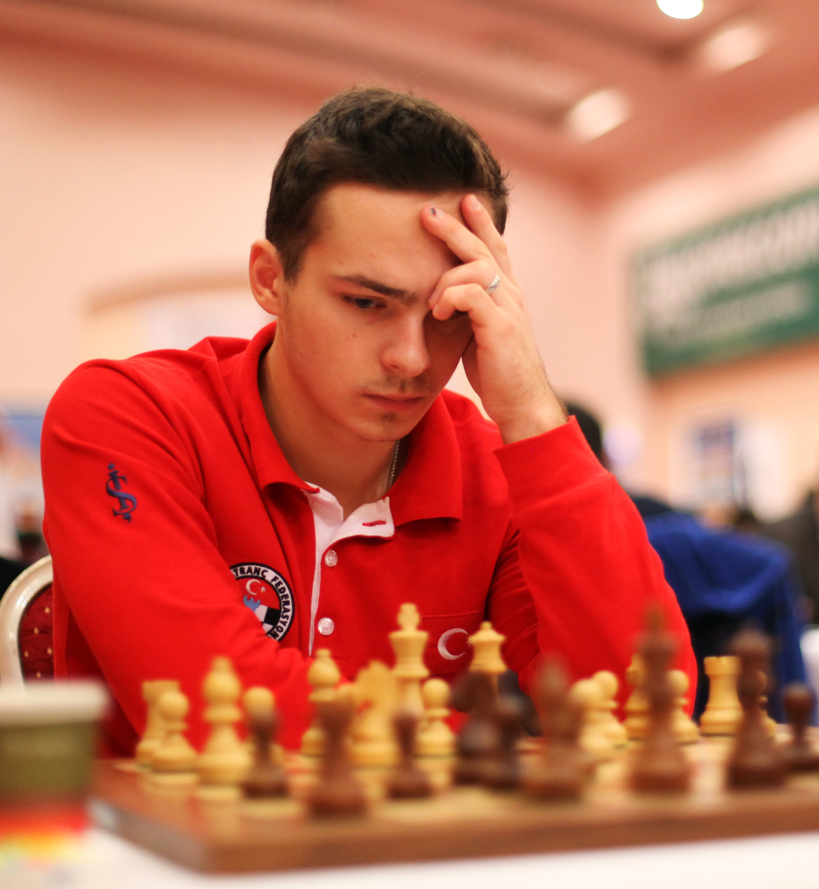 2013 World Team Chess Championship in Antalya 2013